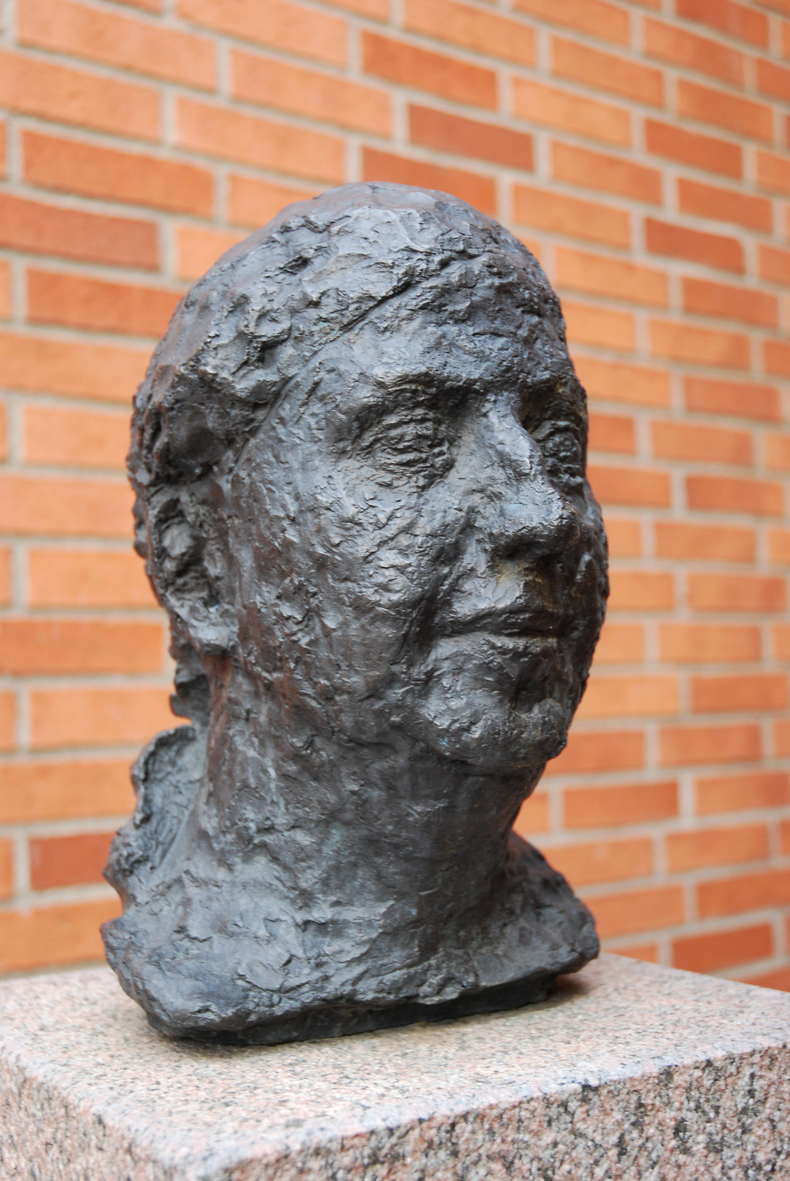 Asmund Arle´s portrait of his wife, Lizzie, bronze, 1971. Lizzies torg, Huddinge Centrum, Huddinge, Sweden